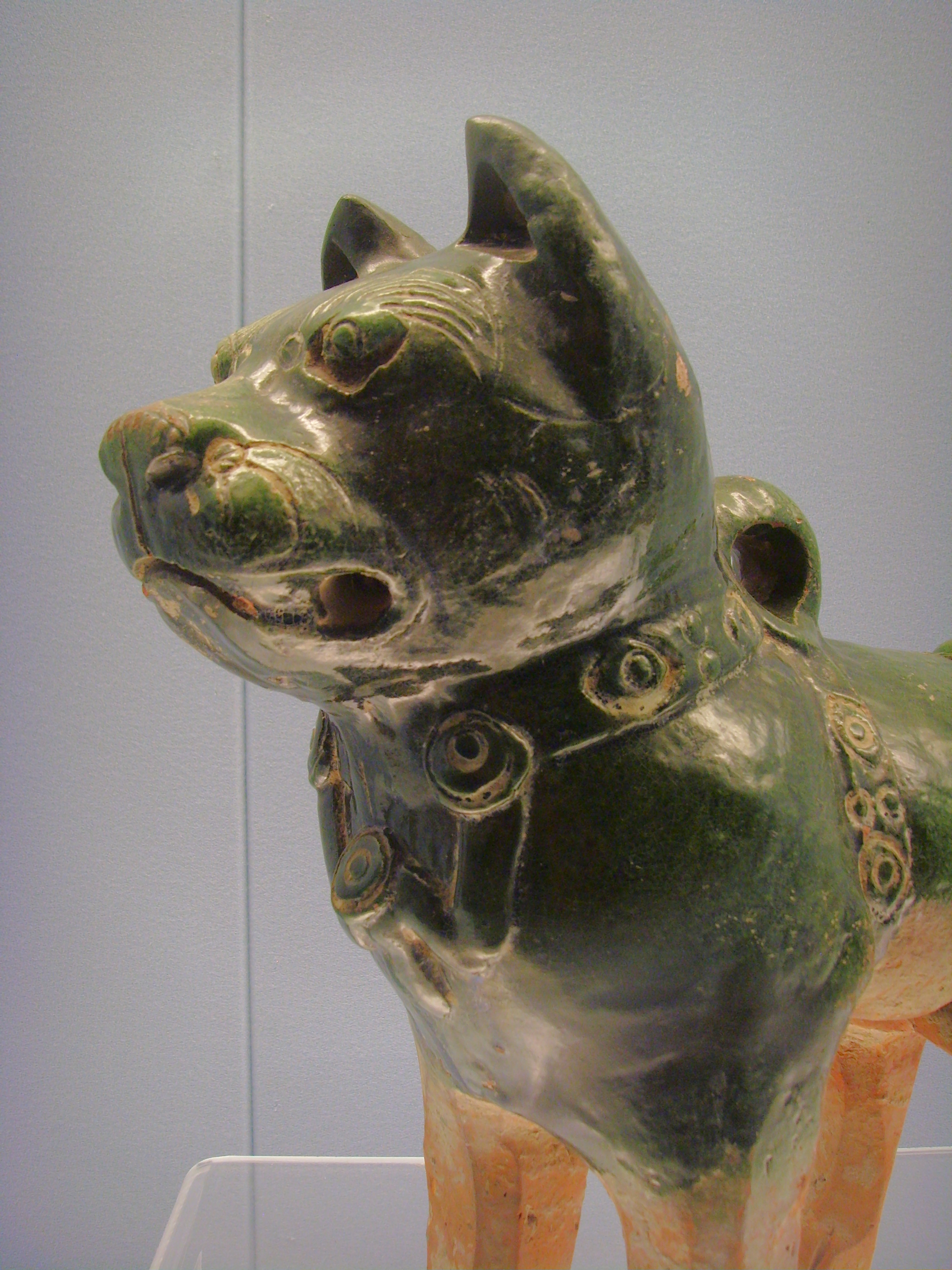 Shanghai Museum, Shanghai, P.R. of China: Green Glazed Pottery Dog, Eastern Han Dynasty (A. D. 25-220)